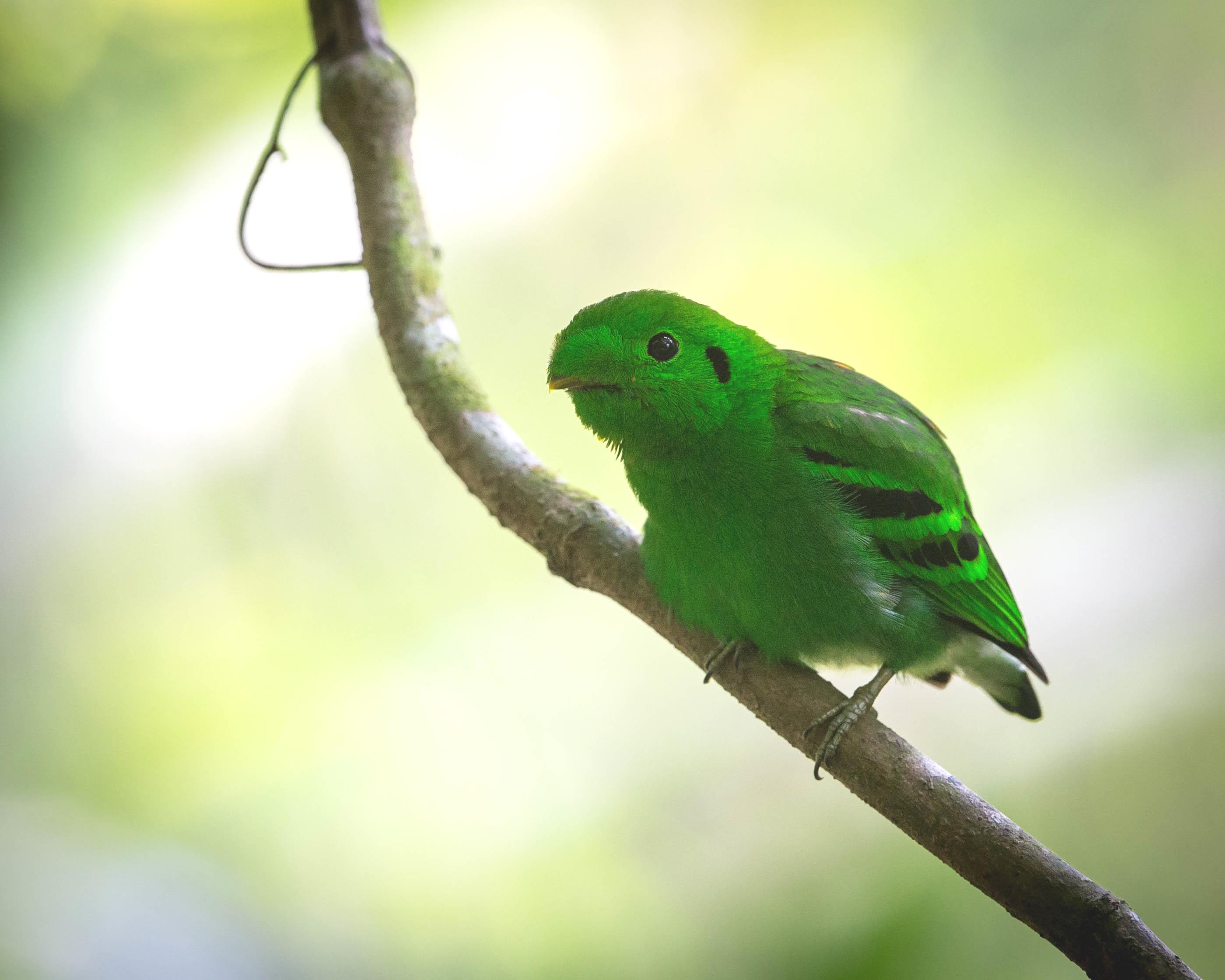 Green Broadbill (Calyptomena viridis) at Sri Phang Nga National Park, Thailand